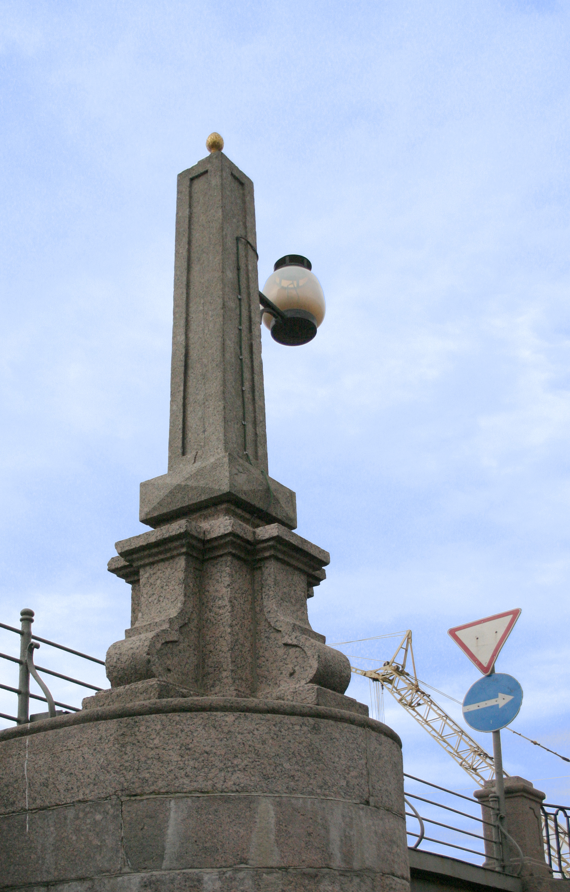 A part of the Pikalov bridge in Saint Petersburg